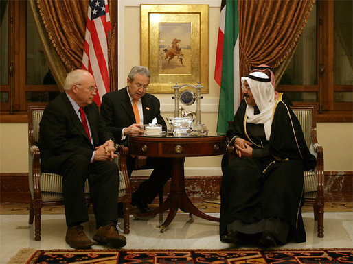 Meeting with Al-Sabah family and condolence call as a result of the death of Emir.